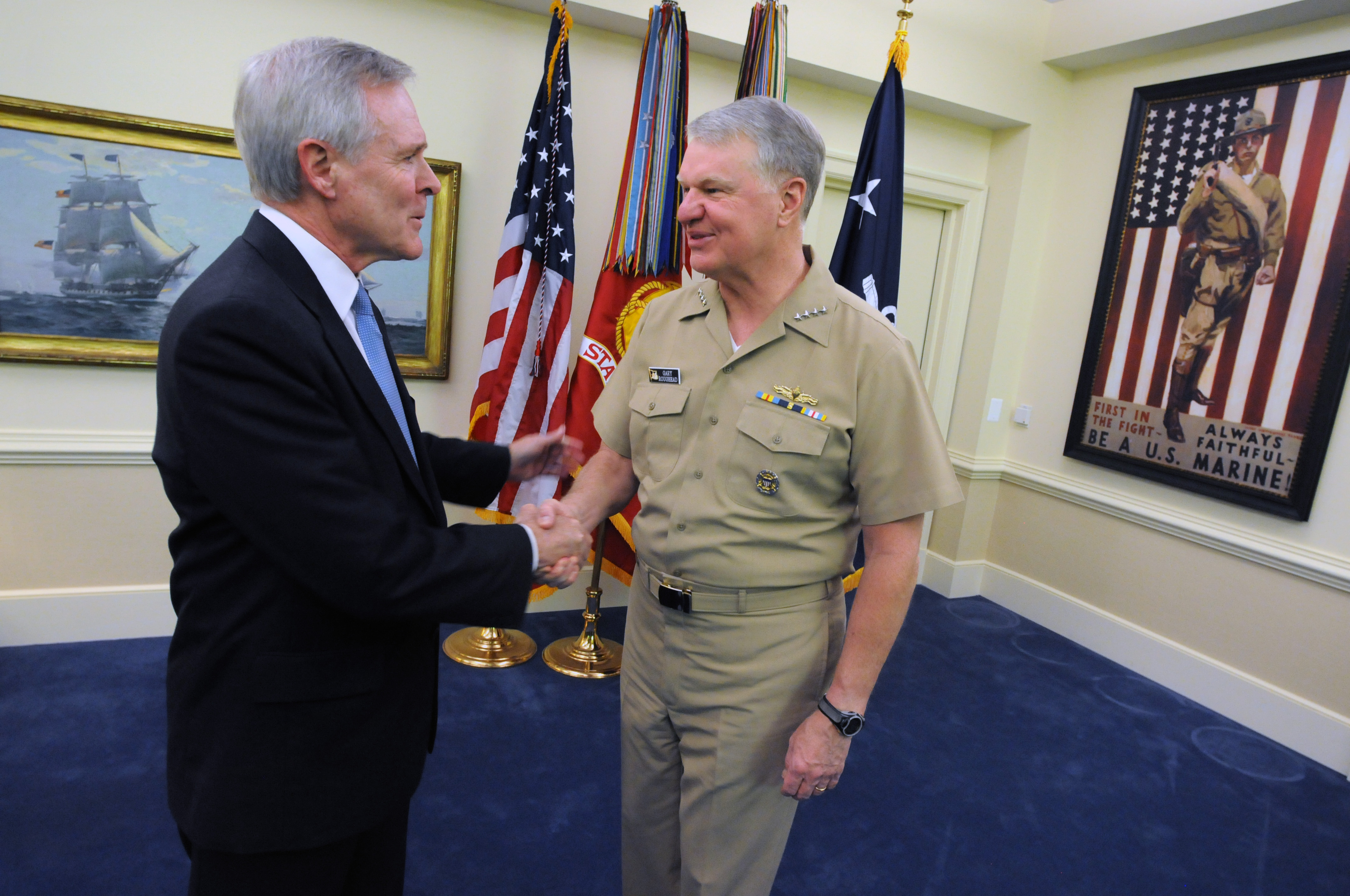 090519-N-5549O-041 WASHINGTON - Secretary of the Navy (SECNAV) the Honorable Ray Mabus, left, is congratulated by Chief of Naval Operations (CNO) Adm. Gary Roughead after his swearing in ceremony at the Pentagon. Mabus is the 75th Secretary of the Navy.